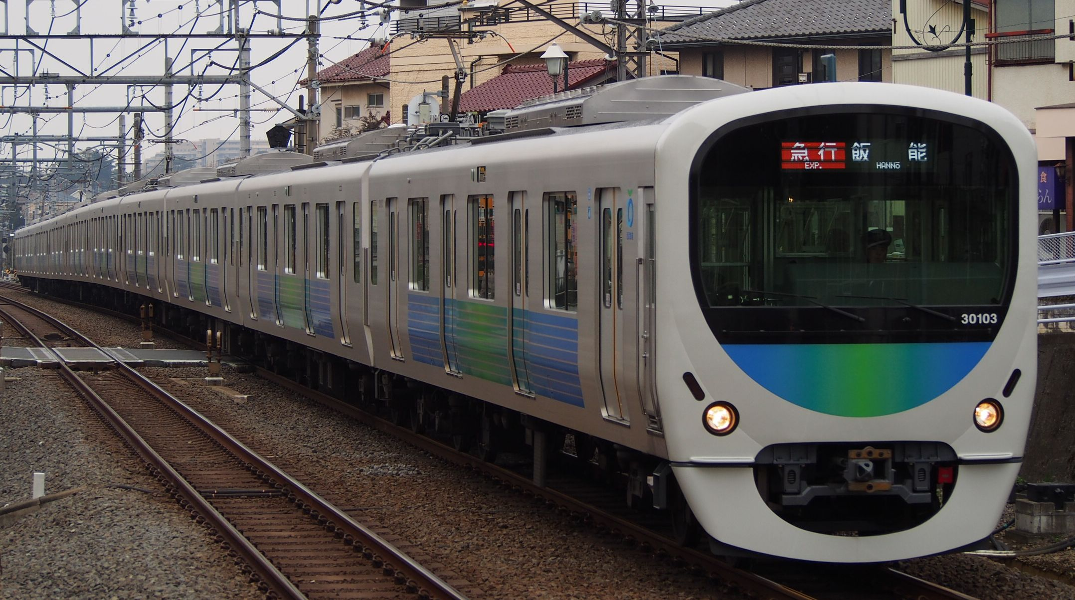 Seibu 30000 series EMU set 30103 on a Seibu Ikebukuro Line express service to Hanno